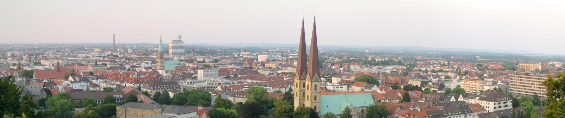 Bielefeld City seen from the Sparrenburg